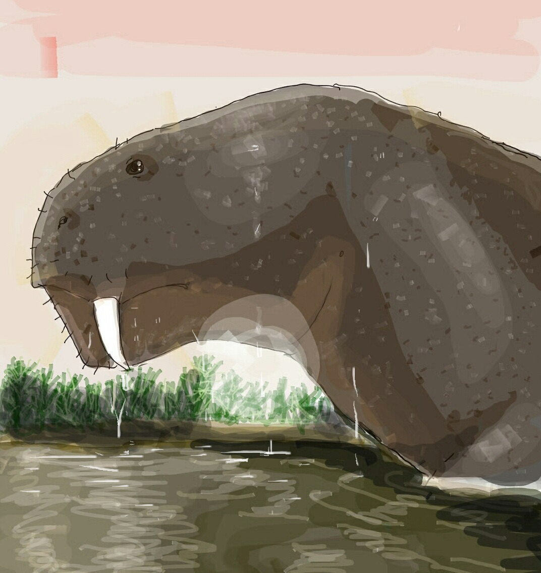 Daptocephalus may have been aquatic